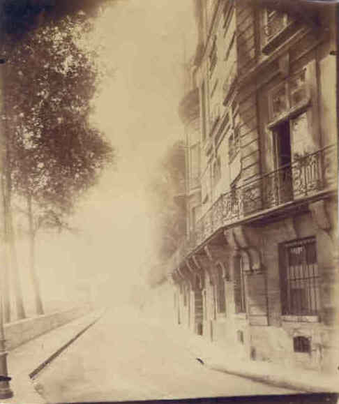 albumen print 21.2 x 18 cm